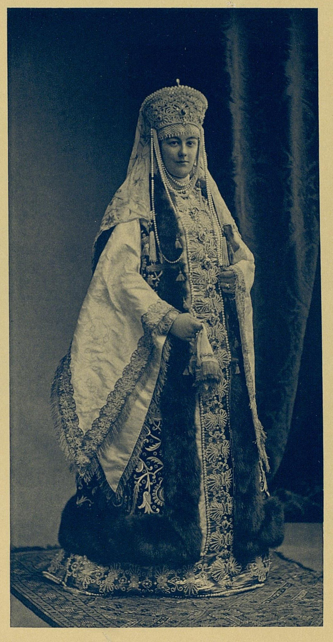 Countess Irina Sheremeteva